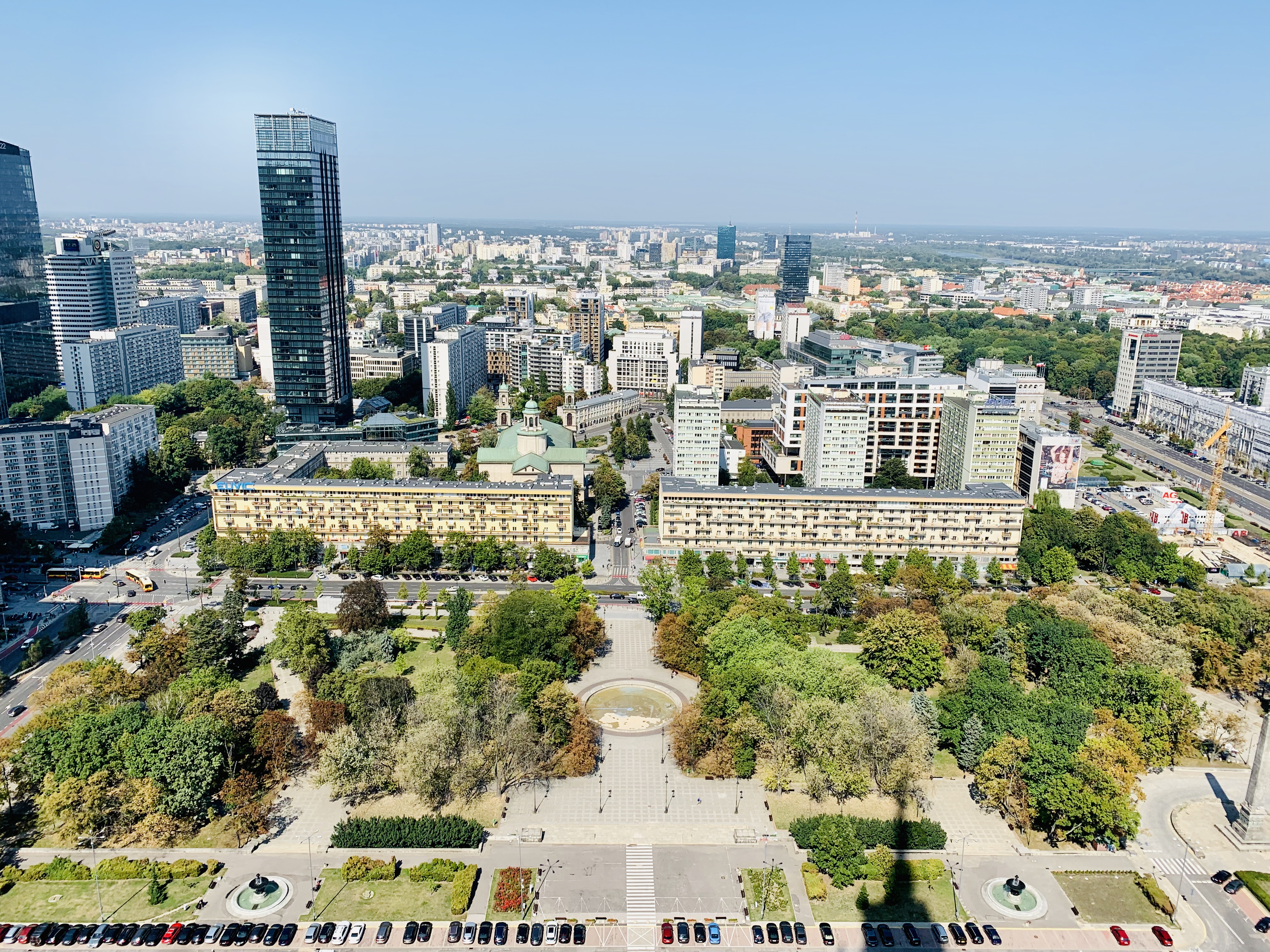 Views from Palace of Culture and Science in Warsaw, Poland, 2019